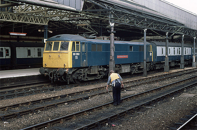 Driver Wallace Oakes GC A permanent way man checks the fishplate bolts on the through tracks. 86260 is pictured on a southbound train at Crewe. A fitting location, for the man whose name it carries lost his life near here. The George Cross citation reads: - Wallace A. Oakes (33), locomotive Driver, 6 Sandy Lane, Wheelock Heath, Sandbach, Cheshire, on 5 June 1965, although severely burned by a blow-back from the fire-box in the express train he was driving, brought the train to a stop at Winsford, Cheshire, and ensured the safety of a large number of passengers; he died as a result of his injuries on 12 June 1965.